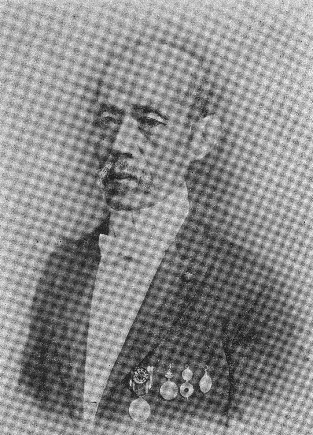 Portrait of Watanabe Tatsugoro (渡辺辰五郎, 1844 – 1907)